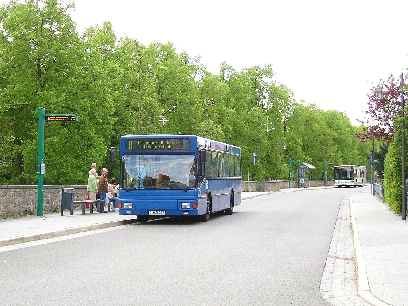 Bus station in centre of Meiningen, germany